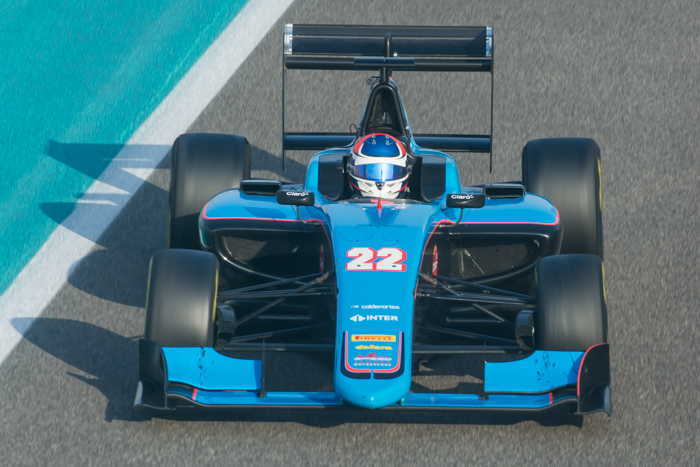 Tatiana Calderón Abu Dhabi Test 2017 Jenzer Motorsport